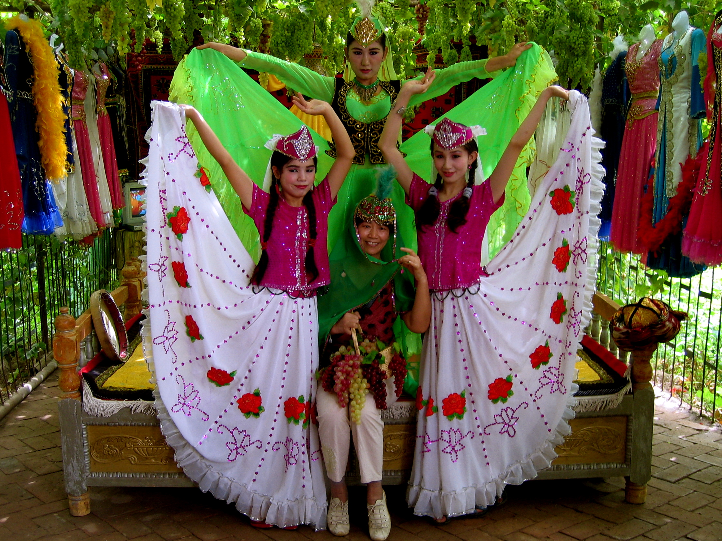 Uyghur girls. Xinjiang.